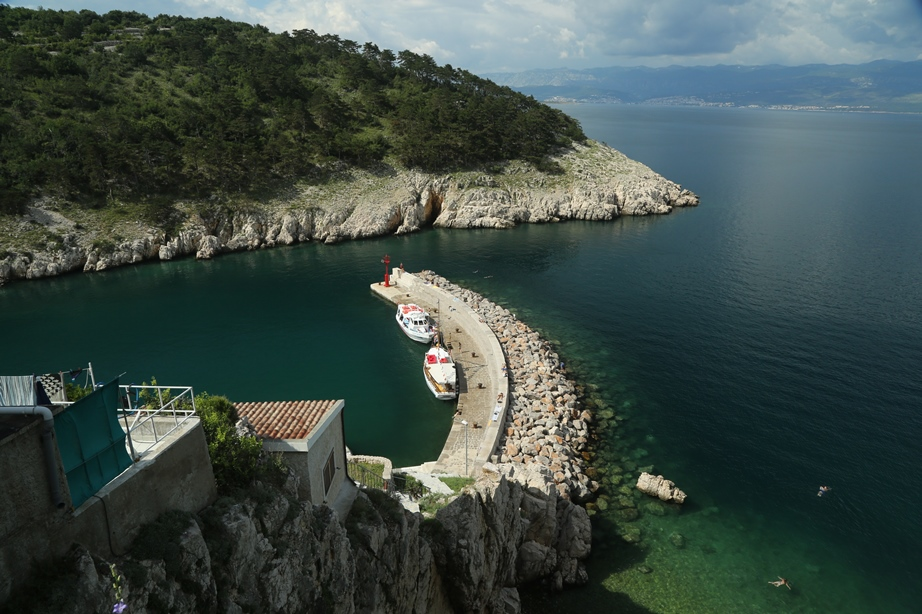 Wejście do portu jachtowego we Vrbniku